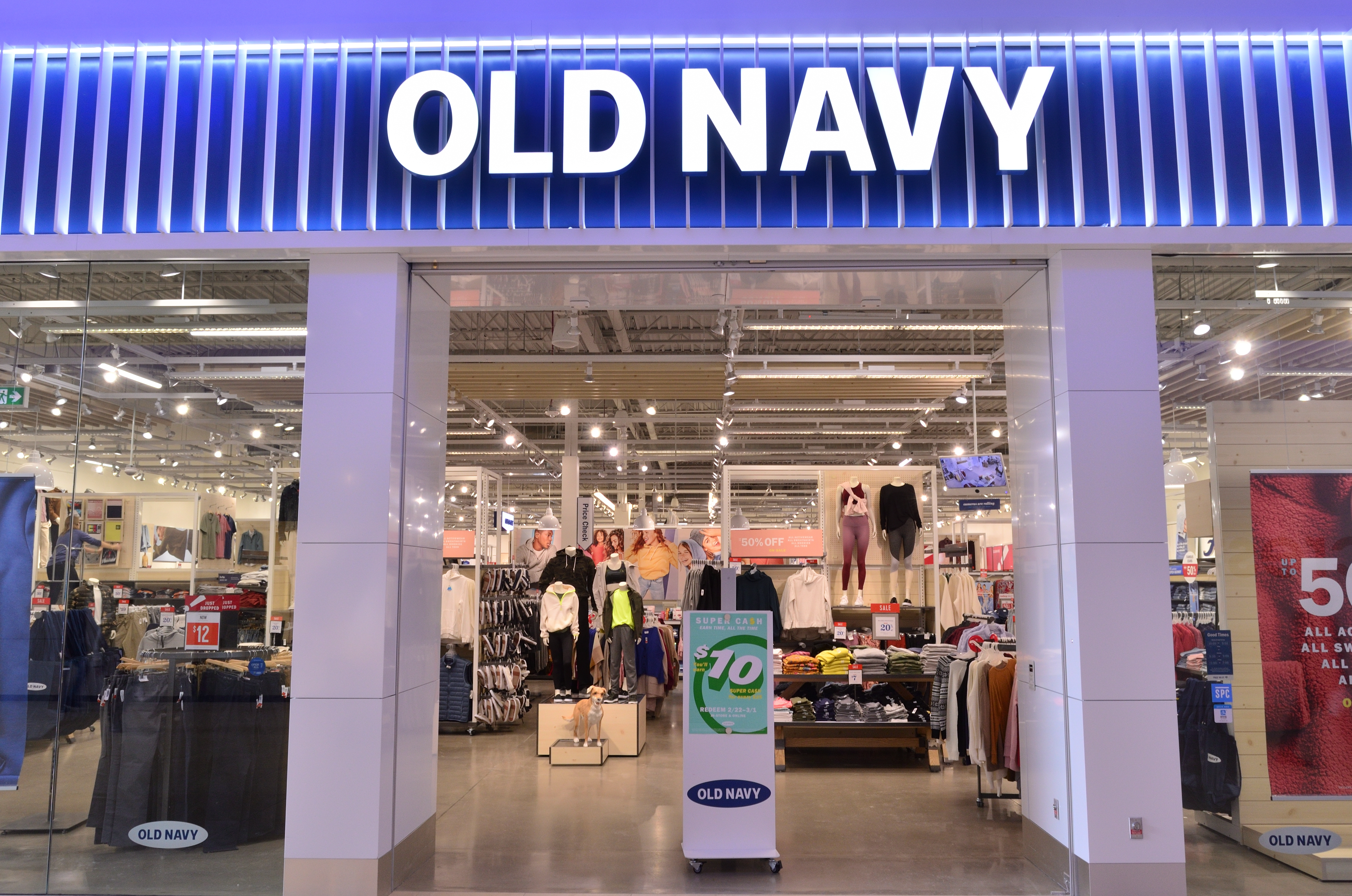 Old Navy at Hillcrest Mall